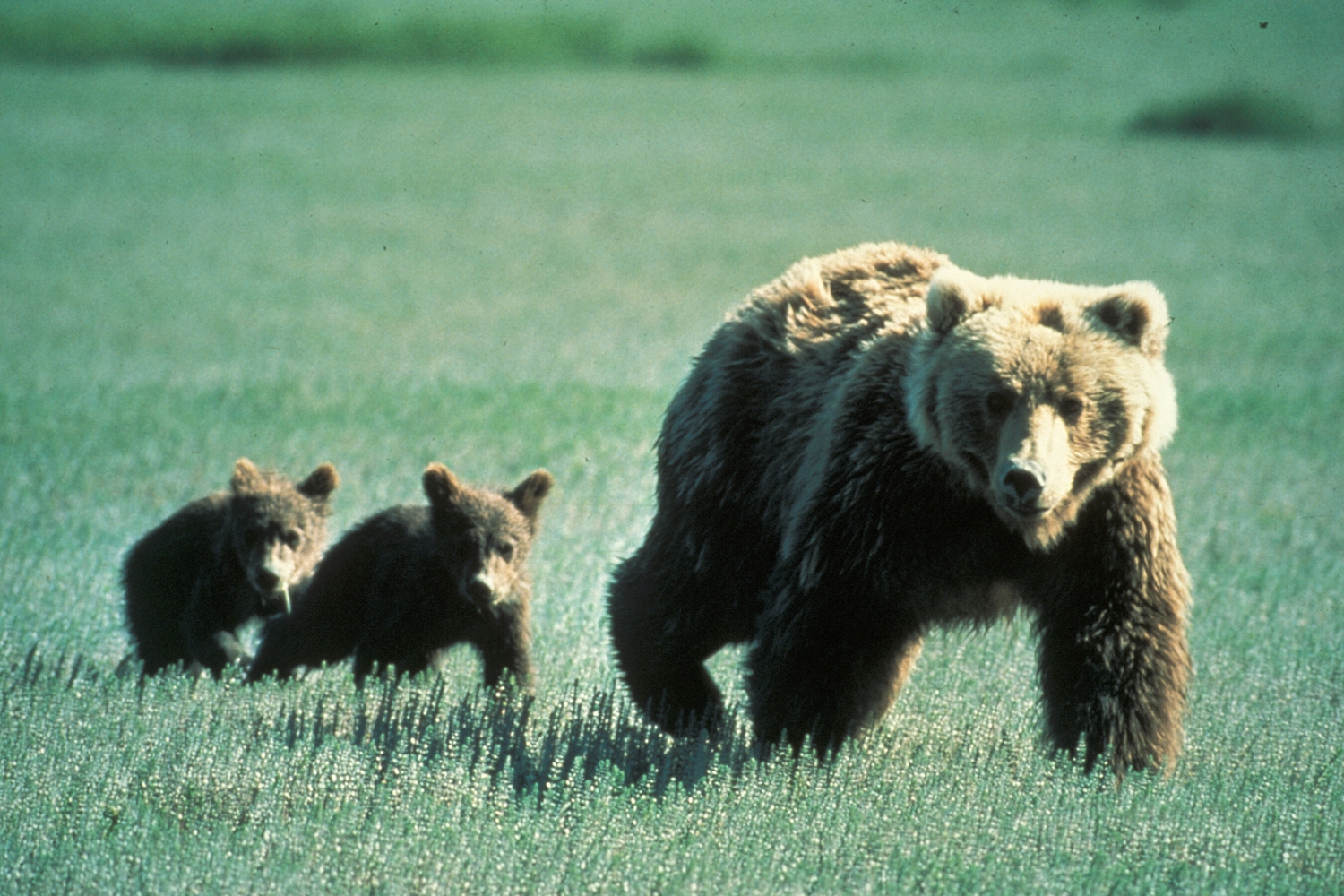 Mother grizzly with two cubs in Glacier National Park, Montana, United States